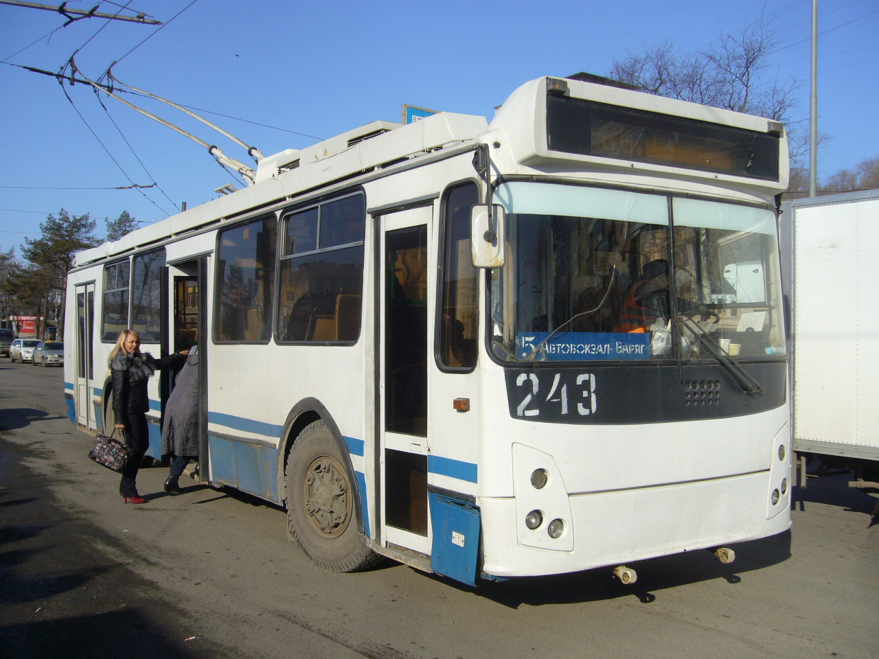 Trolley bus (Vladivostok)